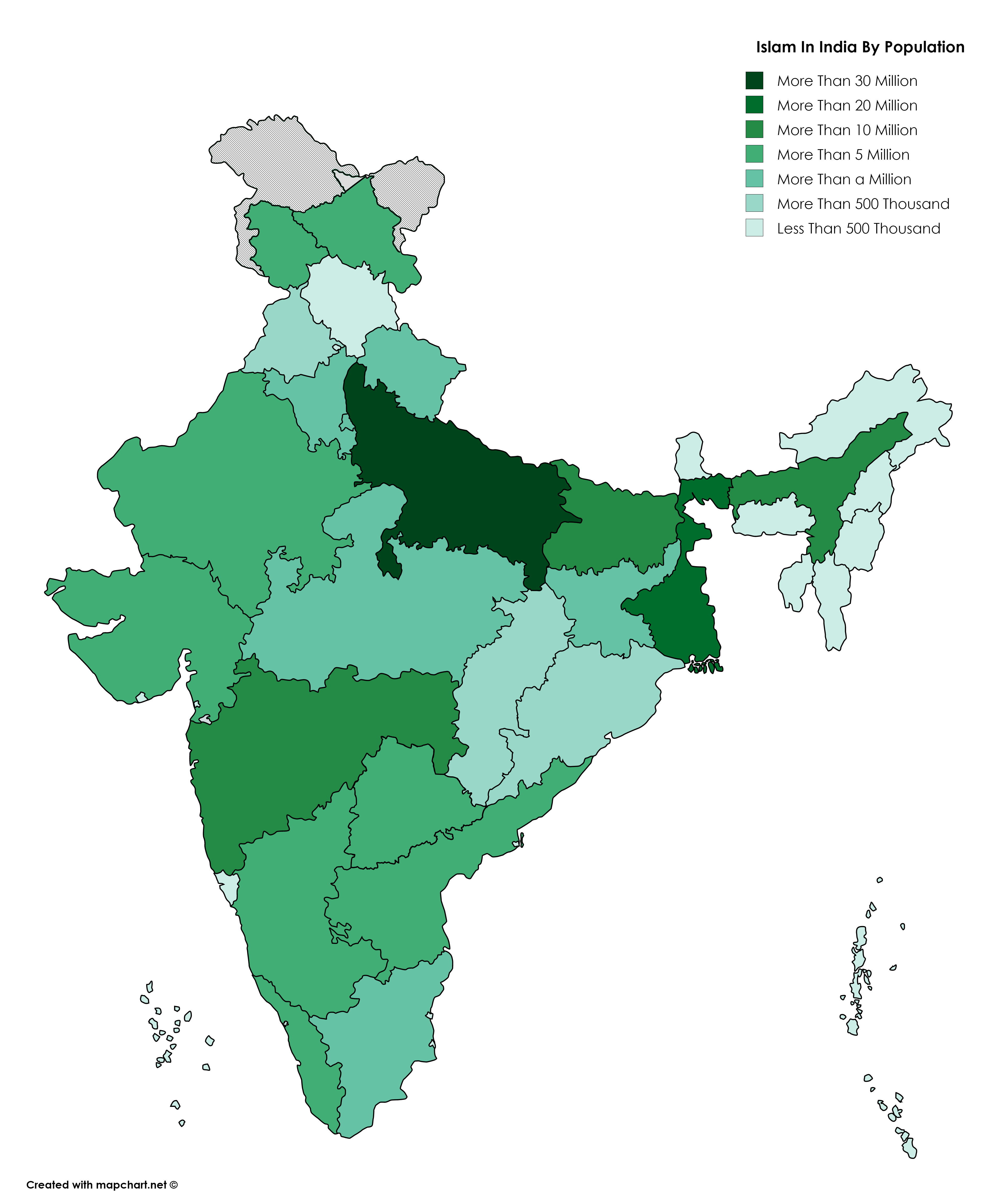 Islam in India, state by state, based on population.